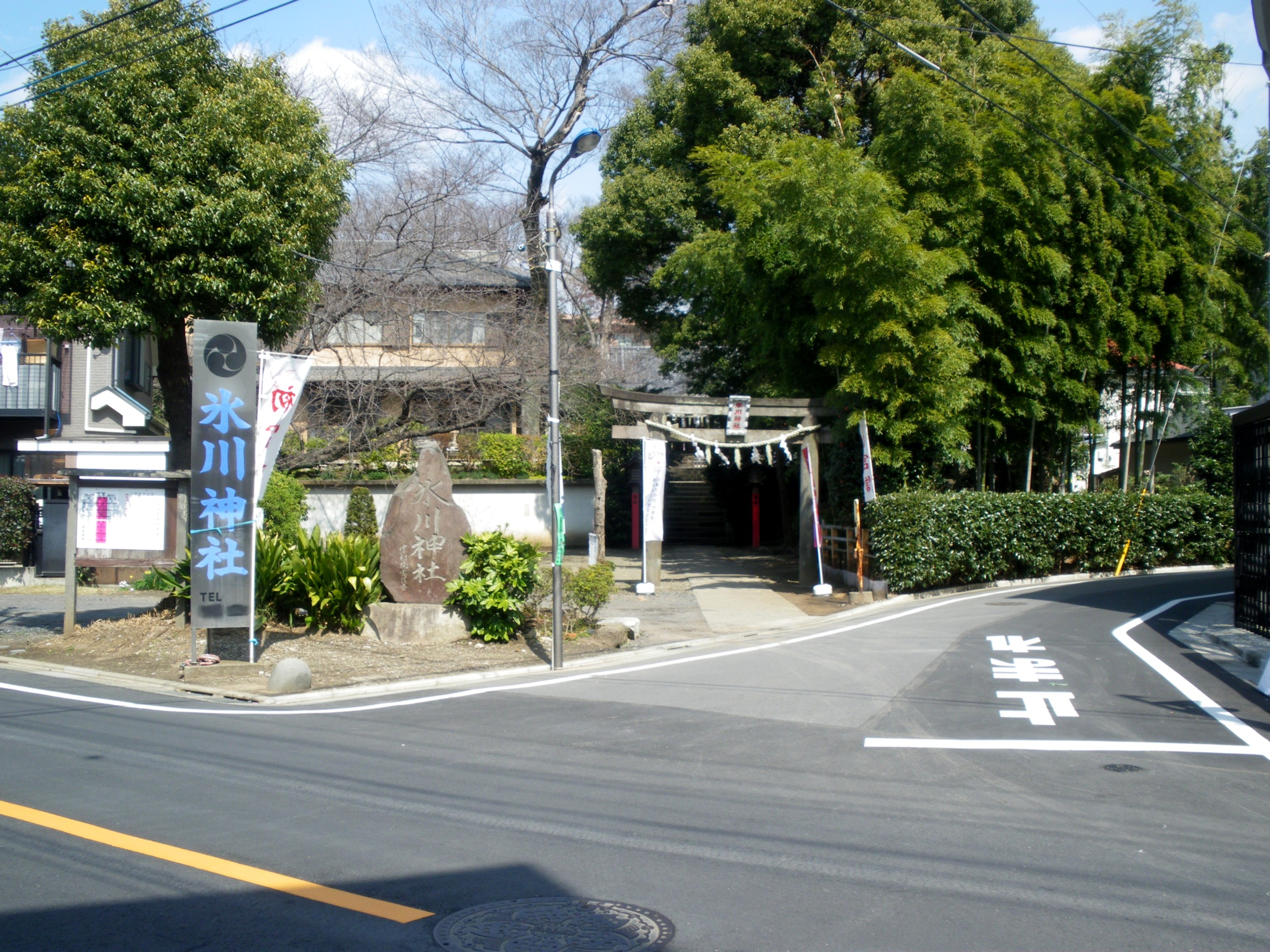 Hikawa Jinja(Hikawadai,Nerima,Tokyo)